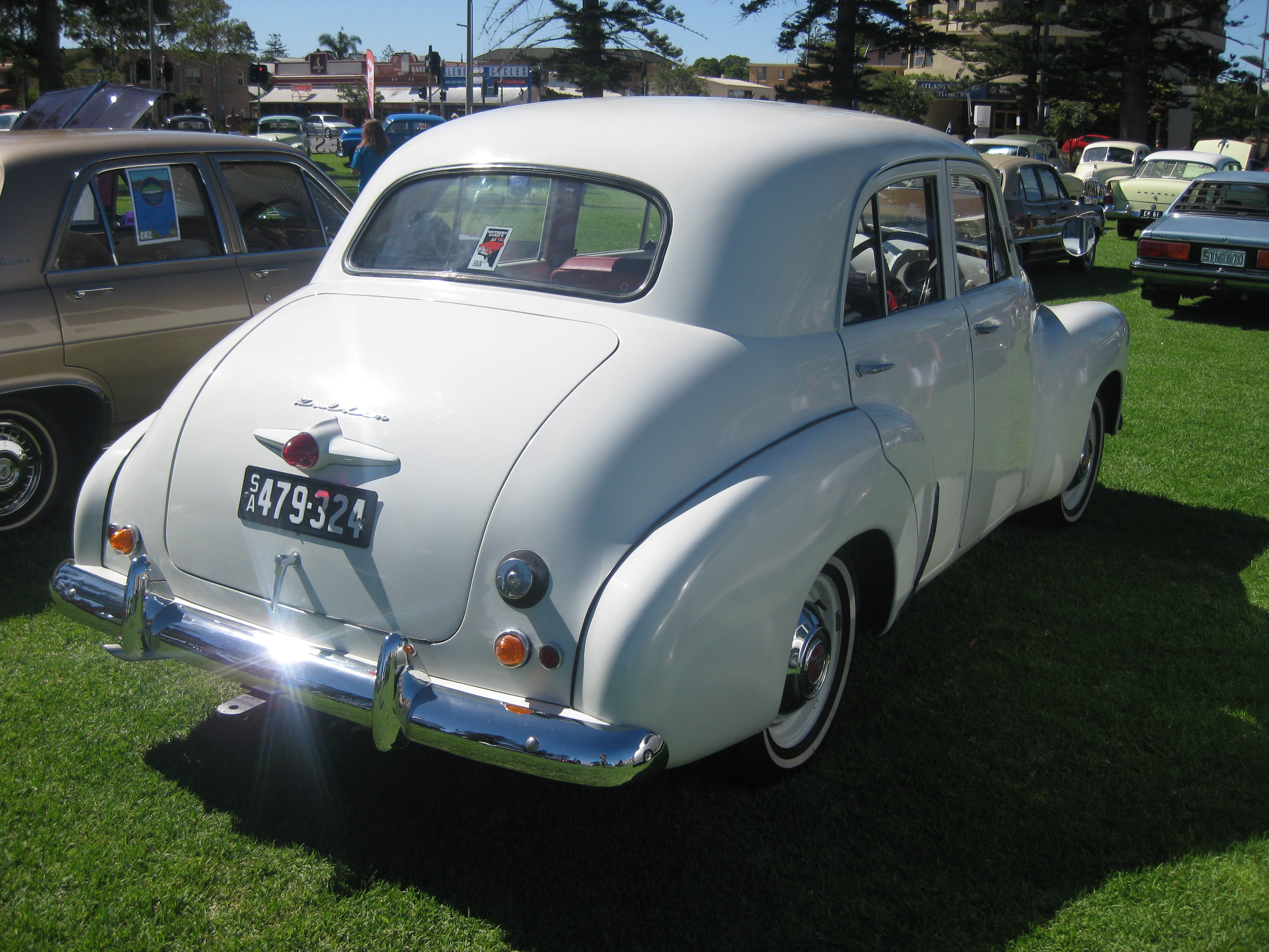 Holden FJ Standard.